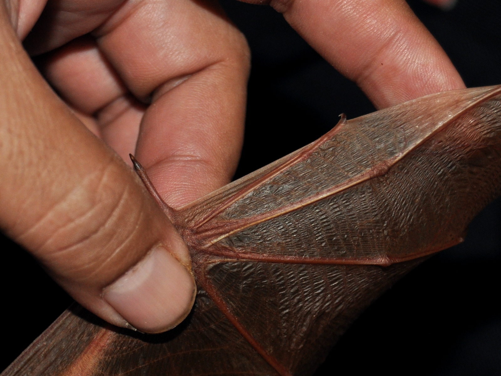 Greater long-tongued fruit bat (Macroglossus sobrinus), female, fore-arm 48 mm, from Darmaga, Bogor, West Java. Fingers close up, to show claws at 1st and 2nd fingers.